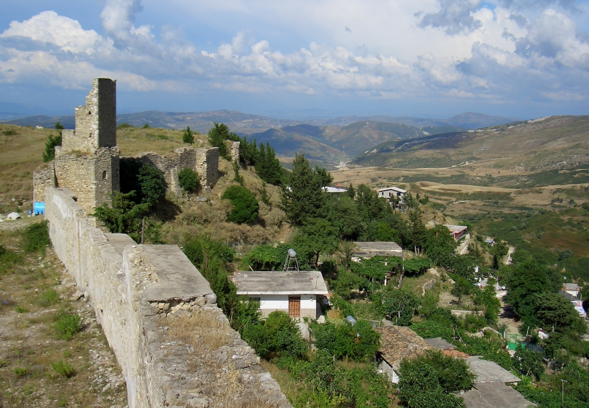 Kanina Castle near Vlora (Albania)